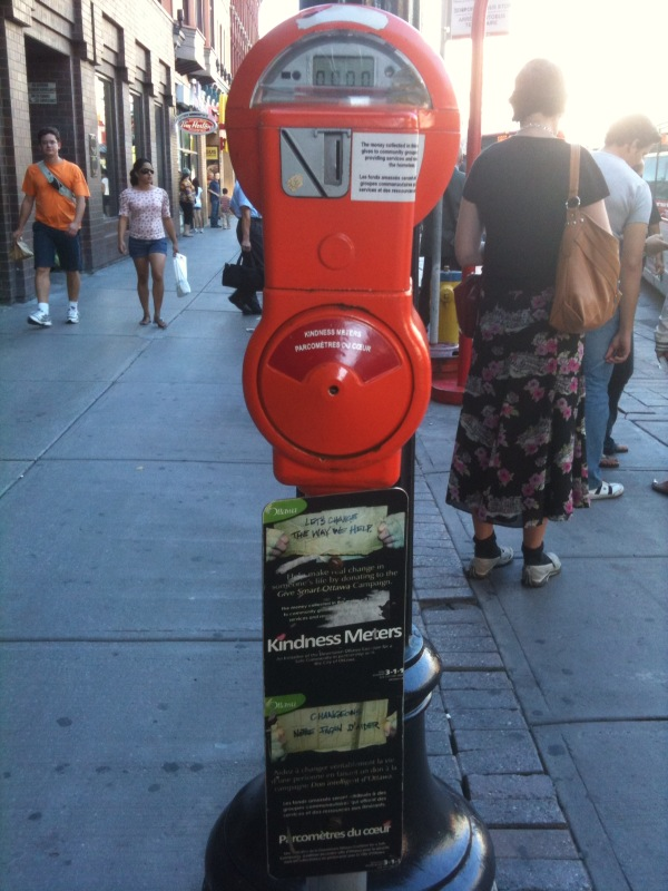 A kindness meter, using a former parking meter, which allows people to donate money to charity rather than giving it directly to panhandlers (beggars). The purpose is to prevent panhandlers from spending money on alcohol or drugs. Ottawa, Canada, 2011.